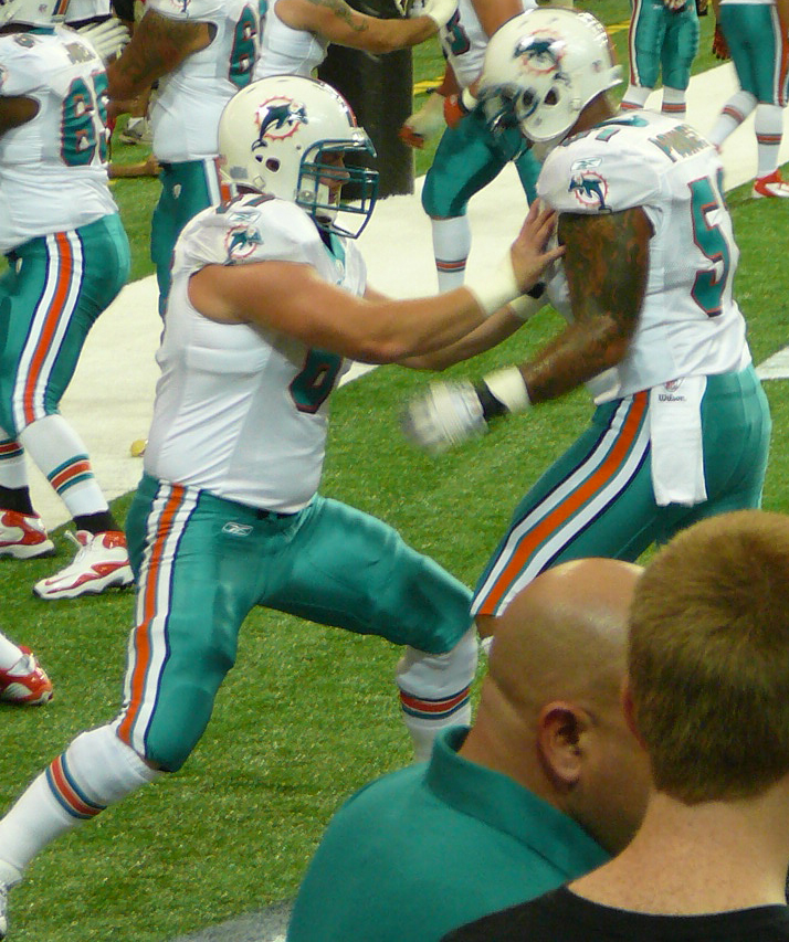 If used somewhere other than Wikipedia, Nelson, by name.